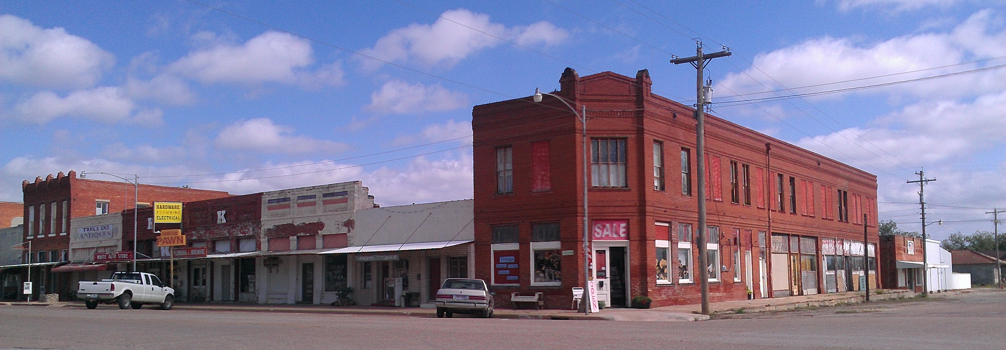 Buildings in downtown Baird Texas